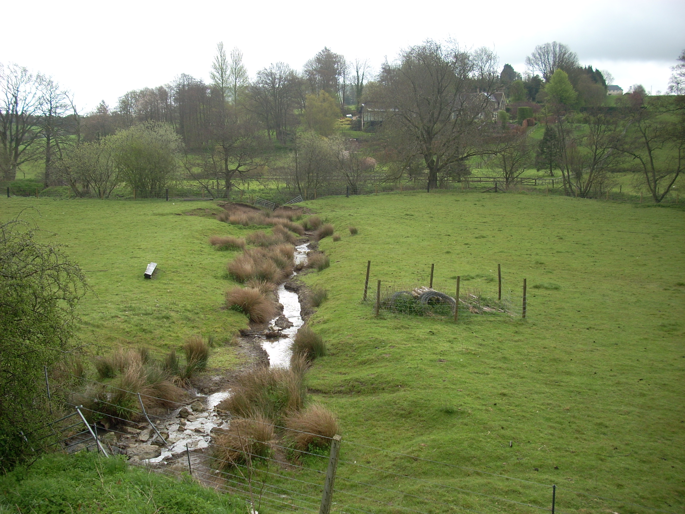 Unnamed tributary stream of the River Nadder, flowing from south of the railway line towards the Nadder, just by the pedestrain level crossing taking the footpath from East Hatch.